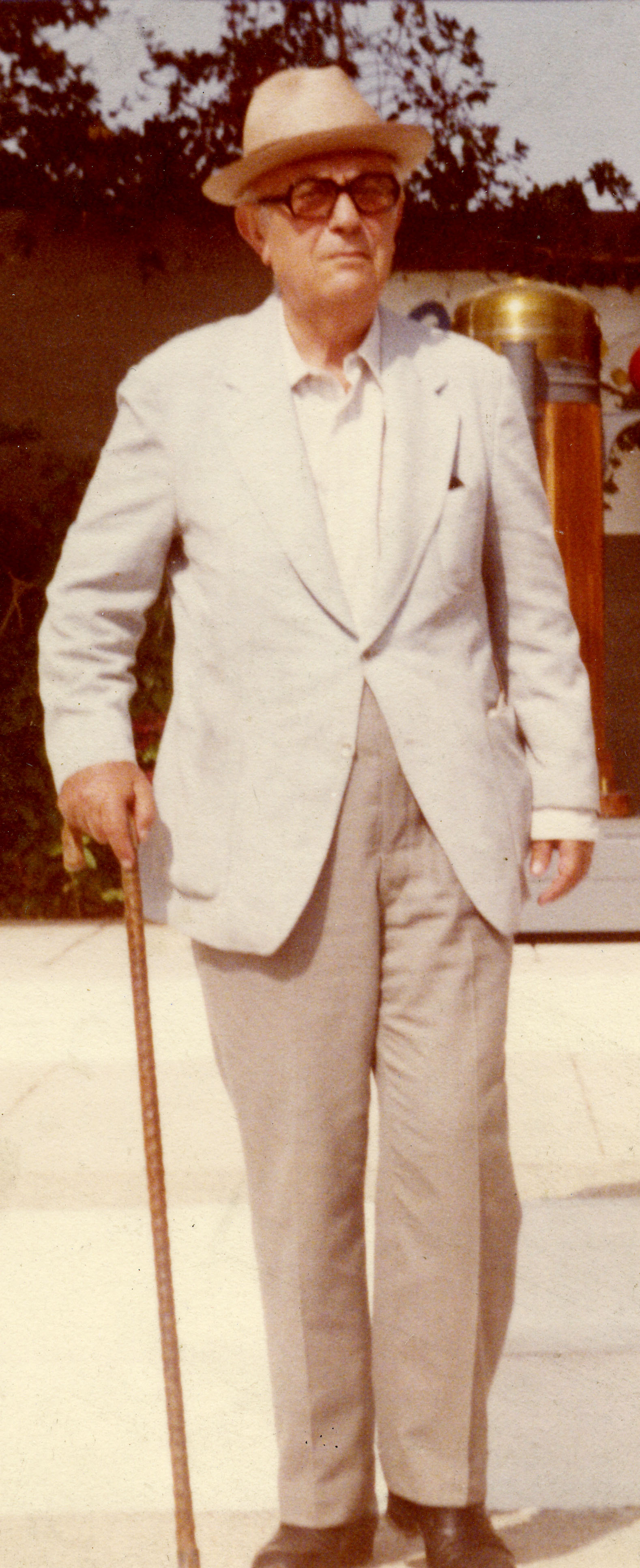 Elias B. Basilas (1906-1982). Photograph of Vasilas, Preveza 1981.